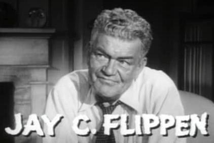 Jay C. Flippen in Hot Summer Night - trailer (cropped screenshot)